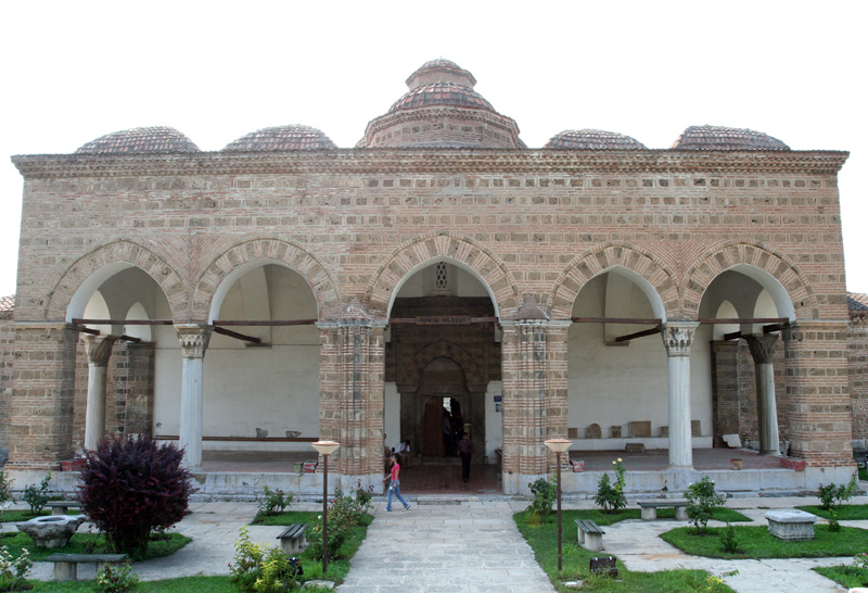 Exterior view of "Nilüfer Hatun Imareti"